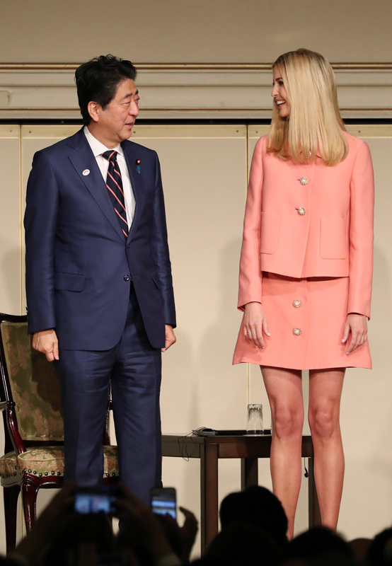 Japanese Prime Minister Shinzō Abe and First Daughter and Advisor to the President of the United States Ivanka Trump attending the World Assembly for Women in Tokyo.